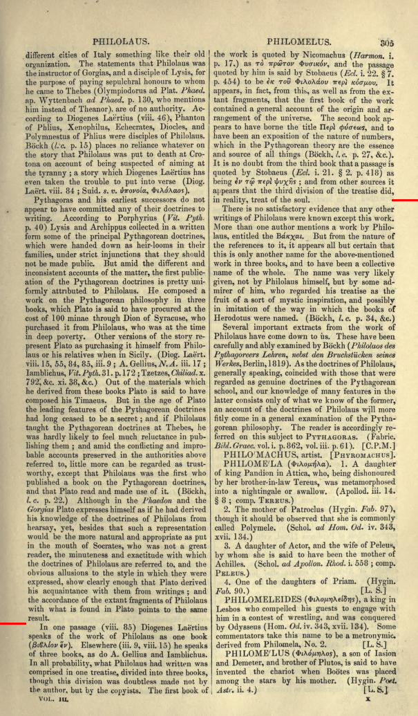 Dictionary of Greek and Roman biography and mythology - On the origins of Philolaus and Philomelus Pythagorean book